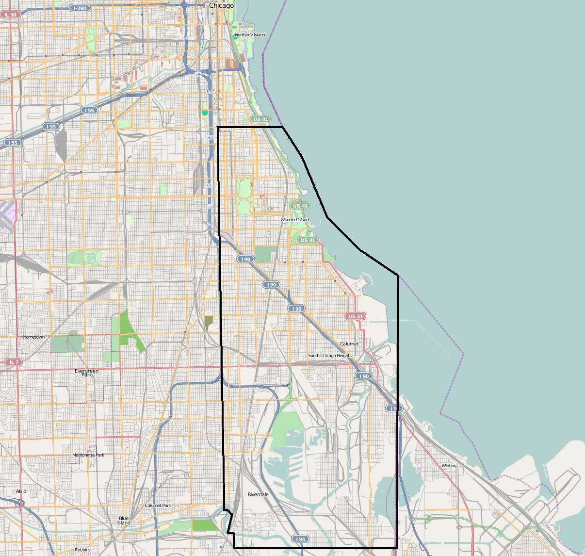 Hyde Park Township, Cook County, Illinois This map may be incomplete, and may contain errors. Don't rely solely on it for navigation.